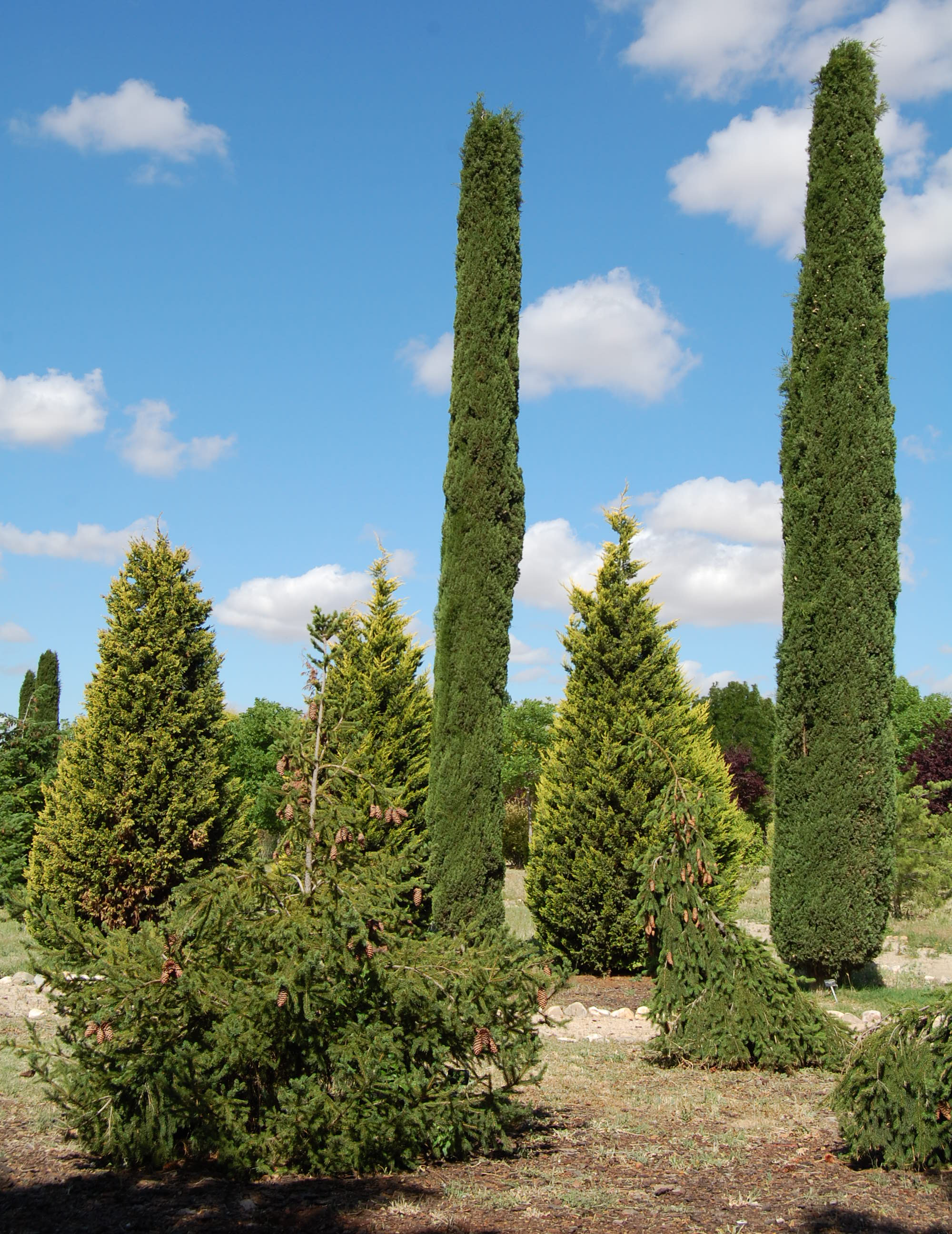 Royal Botanic Gardens, Juan Carlos I, located on the campus of Alcalá de Henares (University of Alcalá). Founded in 1990. Conifer arboretum.